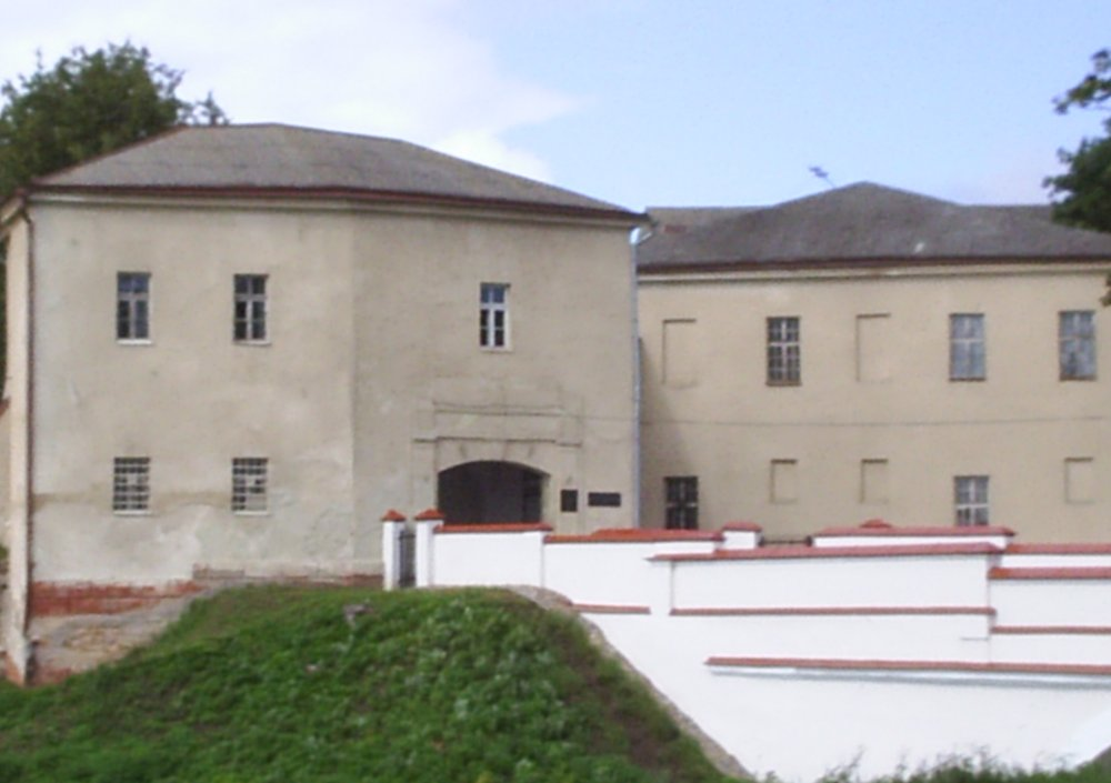 Hrodna, Old Castle (Batory's Castle), gateside, 2006.